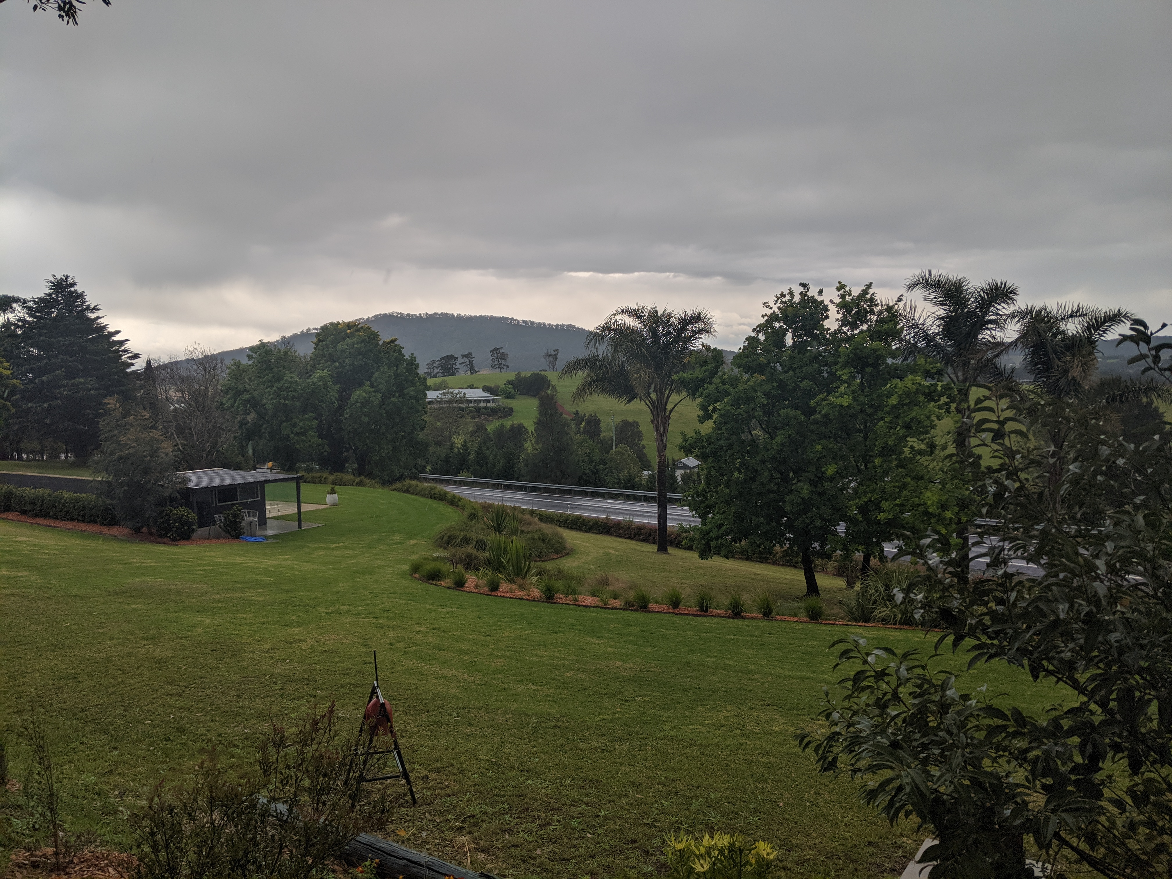 Far Meadow, New South Wales